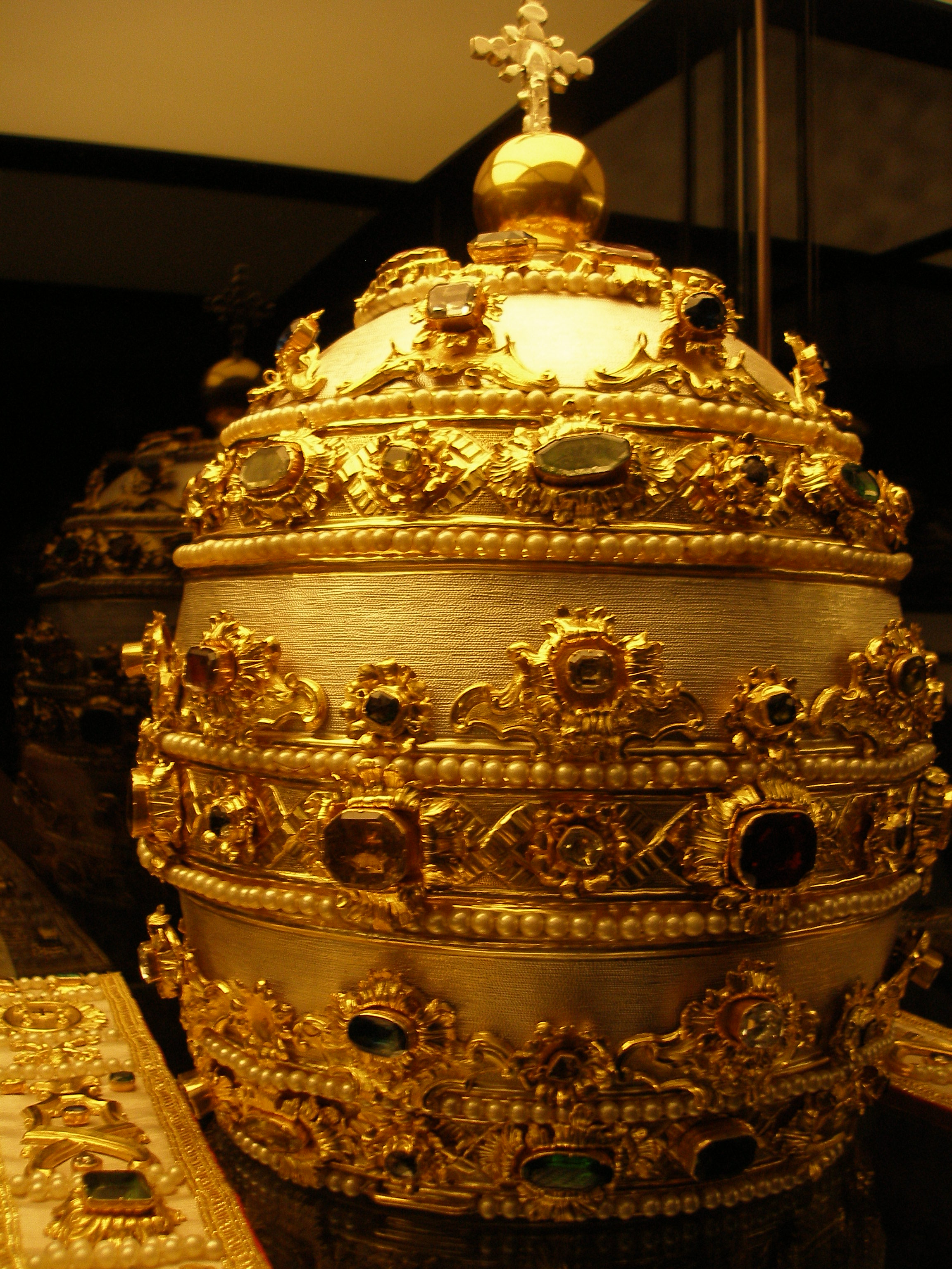 Pope´s Tiara in Vatican City.